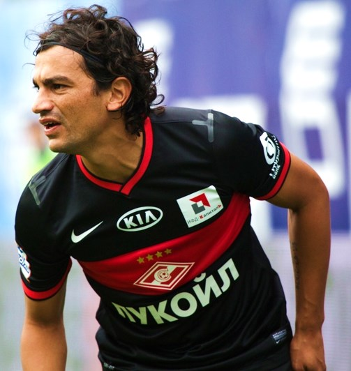 Tino Costa 2013